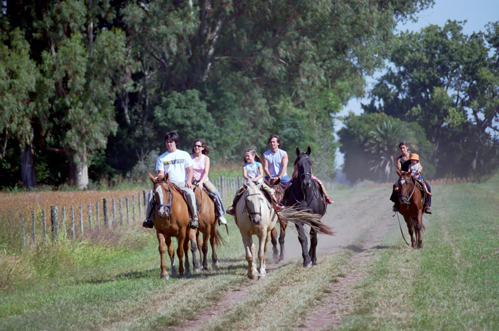 Rural family in Junin, Argentina